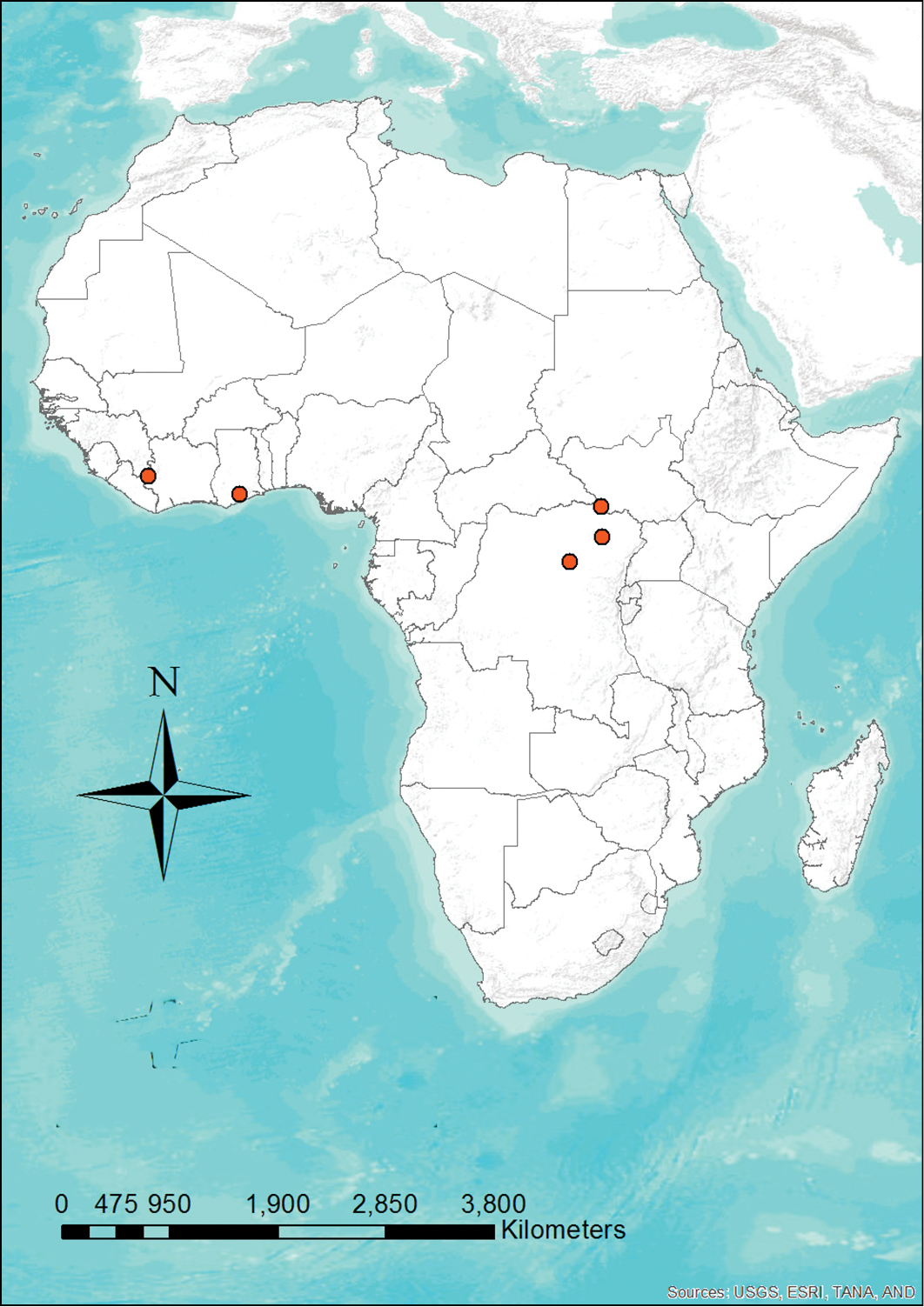 Distribution map showing the locations of the five recorded specimens of Niumbaha superba. Given how widely distributed this species is, its rarity in collections is enigmatic.